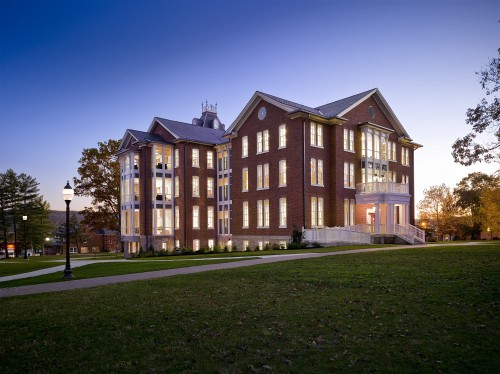 Building on Campus